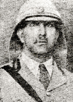 Former Iraqi Prime-Minister Taha al-Hashimi